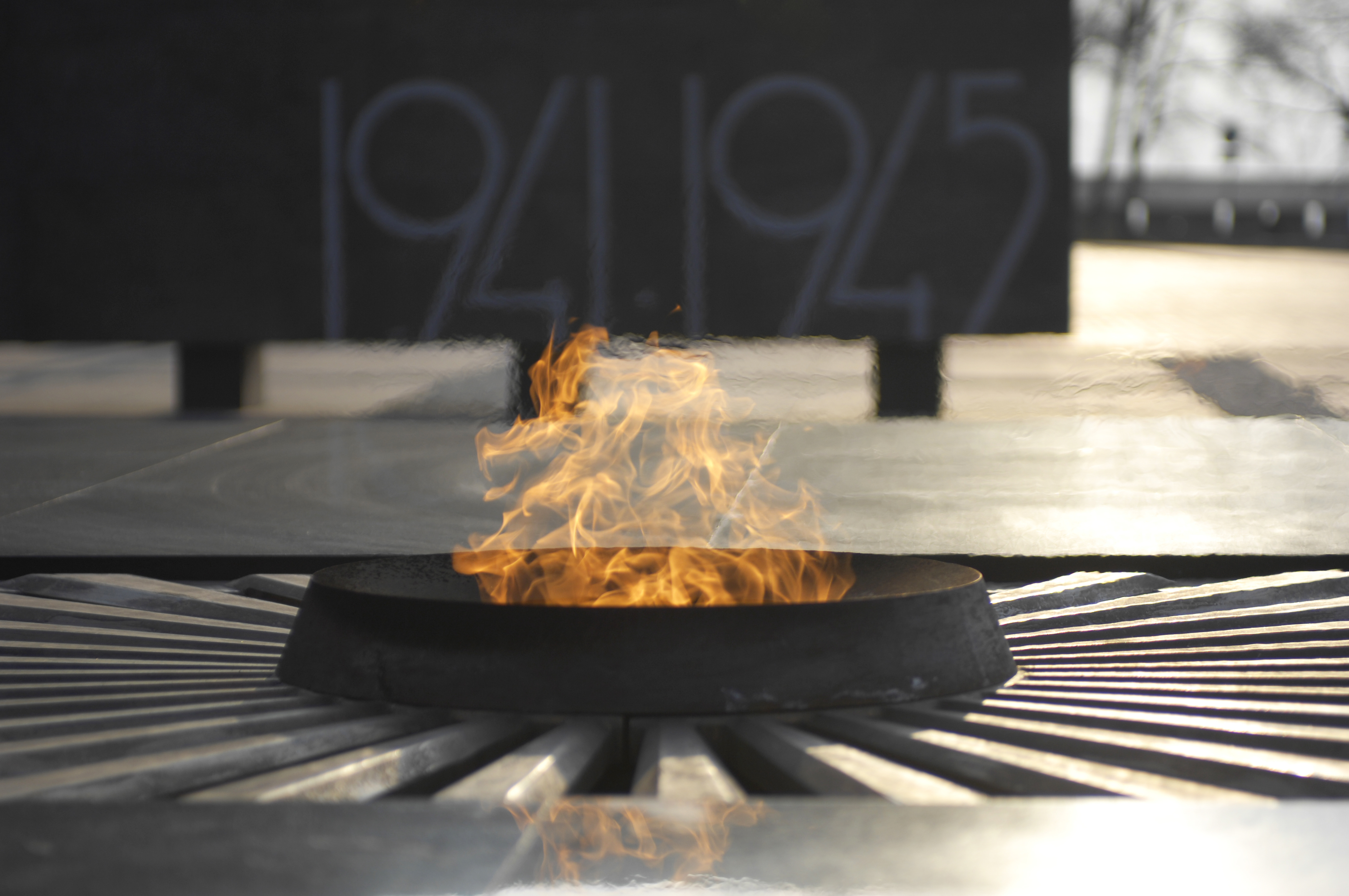 A memorial flame in honor of the residents of Nizhny Novgorod who died during World War II.